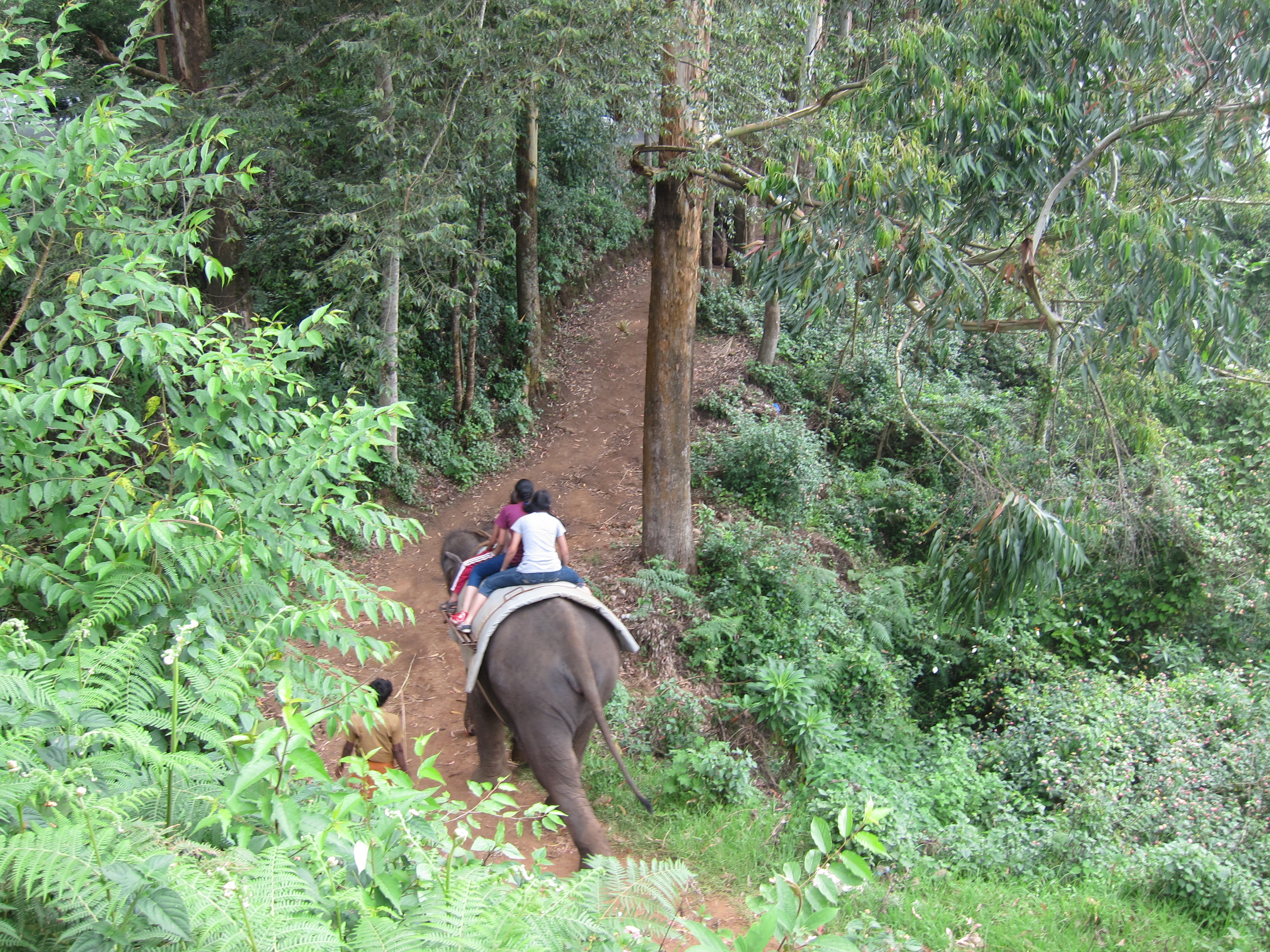 Elephant Safari - Munnar - Mattupetti Road